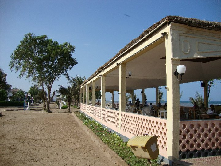 Beach Massawa Eritrea